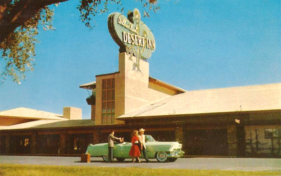 Photo of the front of the Desert Inn from the pool from a 1955 postcard.